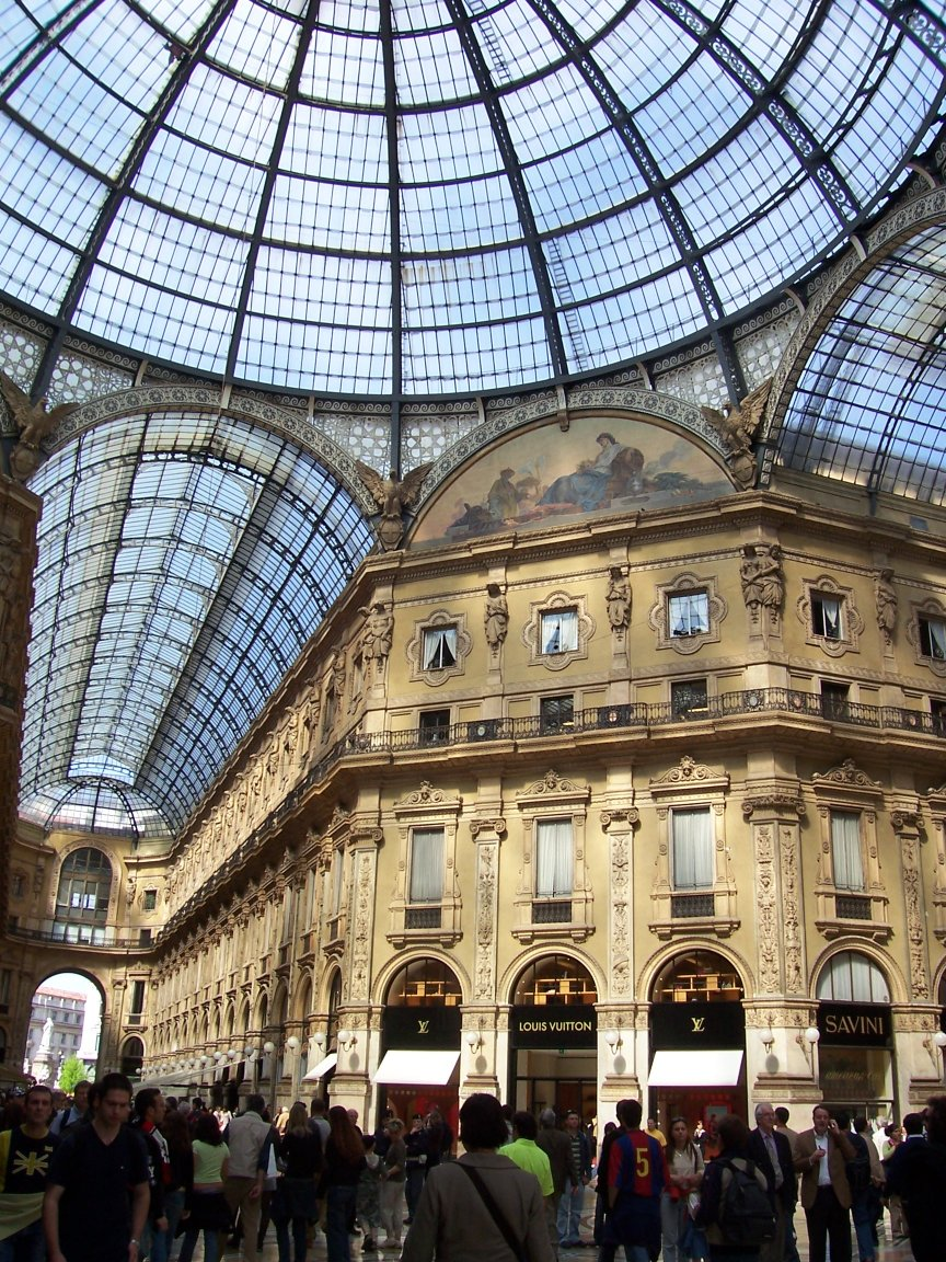 Galleria Vittorio Emanuele II in Milan.